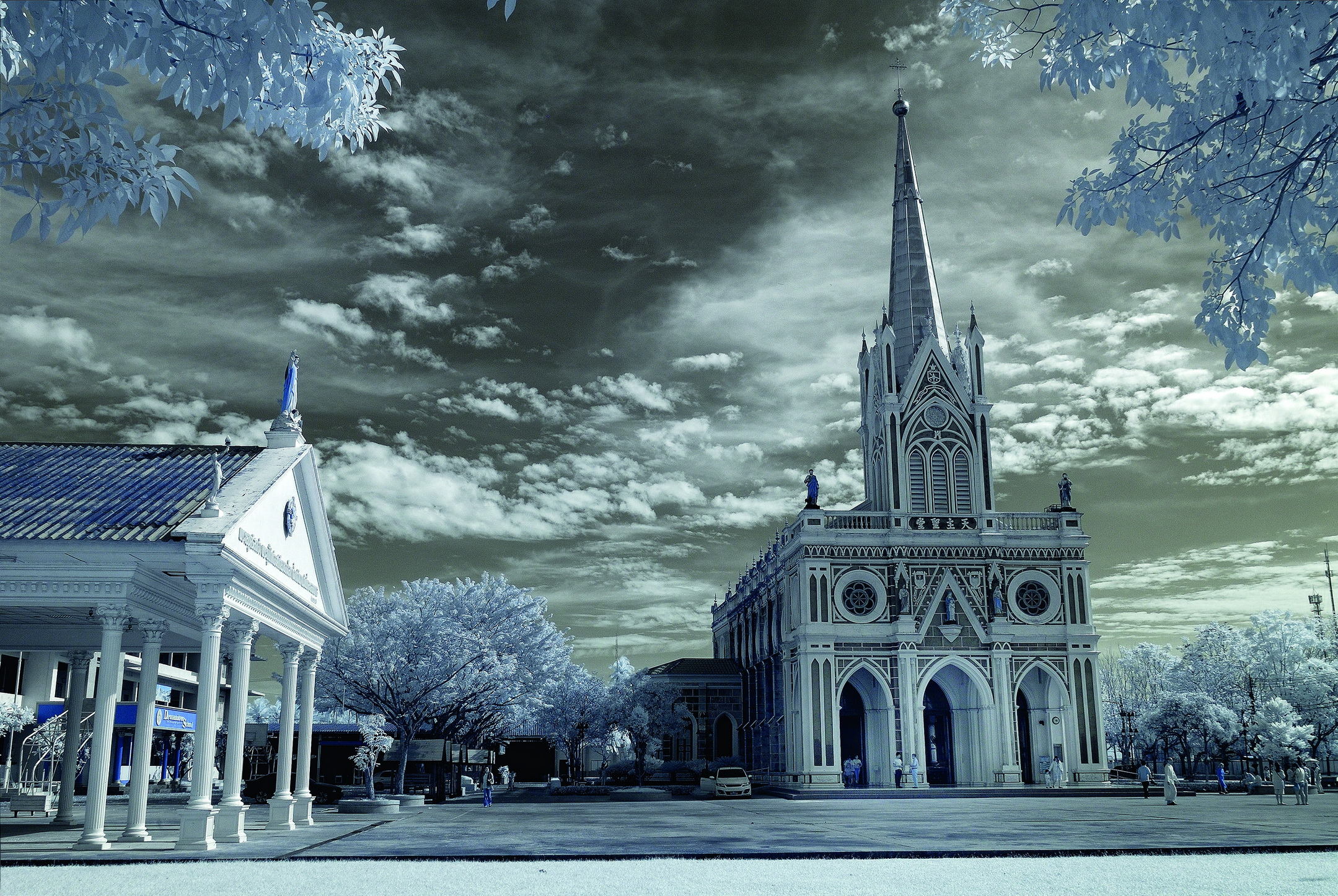 Located in Moo 7, Bang Nok Kwaek subdistrict, Bang Khonthi, the Nativity of Our Lady was built by Father Paulo Salmn, commonly known as “Khun Por Pao”, a French missionary. It took six years to complete the cathedral, and the official opening ceremony, presided over by Bishop Louis Vey, was held in 1896. The term “Cathedral” refers to the most important Christian church in a diocese. This cathedral is considered the principal church in the western region, consisting of 4 provinces, and is acclaimed as one of the most significant and beautiful Christian churches in Thailand. Its entire architecture features firebricks, and the walls which were plastered with mortar - a mixture of lime and dark-colored sugarcane syrup that creates marble-like appearance. The interior design displays several groups of artworks created in Neo Gothic art, e.g. of a sculpture of saints, a pulpit, a baptismal font, candle holders, stained glass windows, and 14 bas-relief ceramic sculptures glazed and painted in gold depicting “The Passion”, all of which were imported from France.